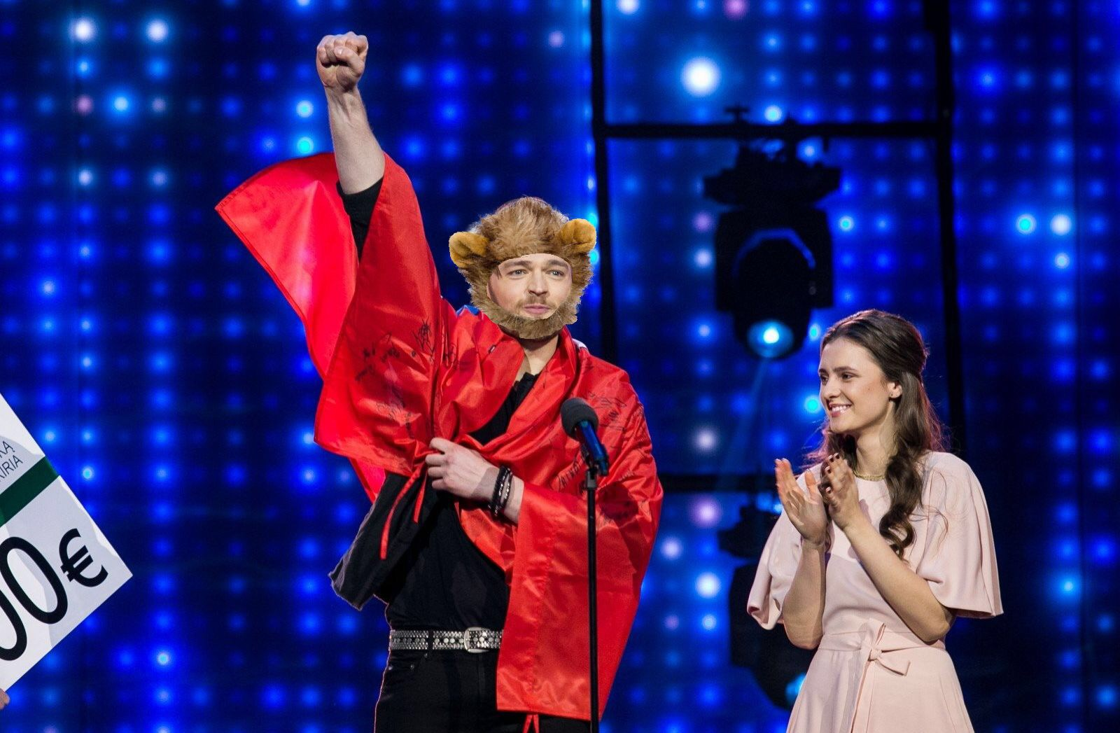 Jurijus celebrating his win in lion attire . Right Ieva, Eurovision 2018 entrée.